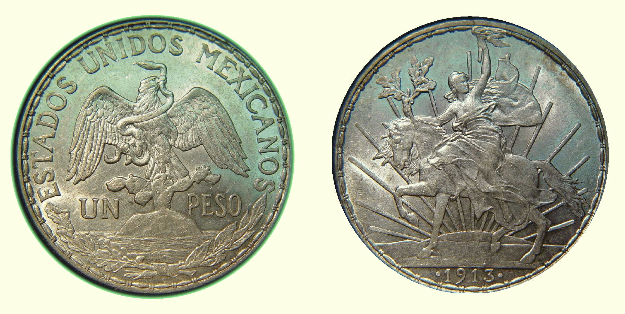 1 Peso, Mexico, Liberty (Horse), Silver, 1913.